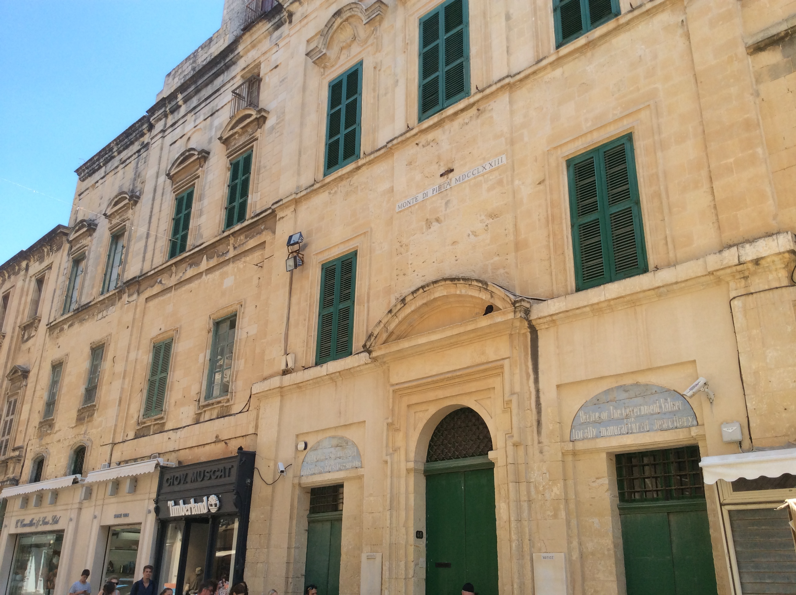 Monte di Sant' Anna with later joined houses, becoming the Monte di Pietà, in Vallatta